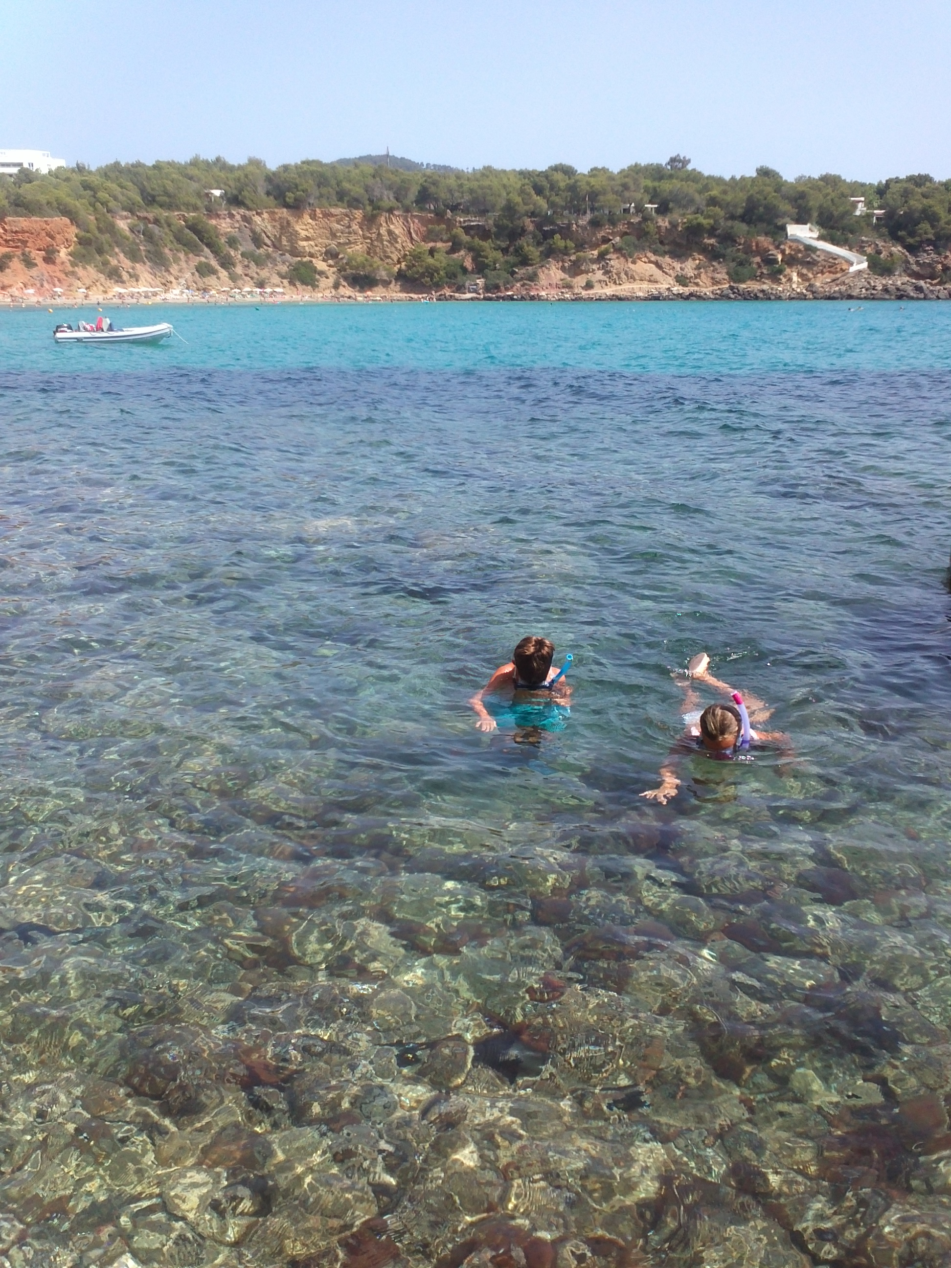 Snorkeling is a popular activity in Cala Llenya